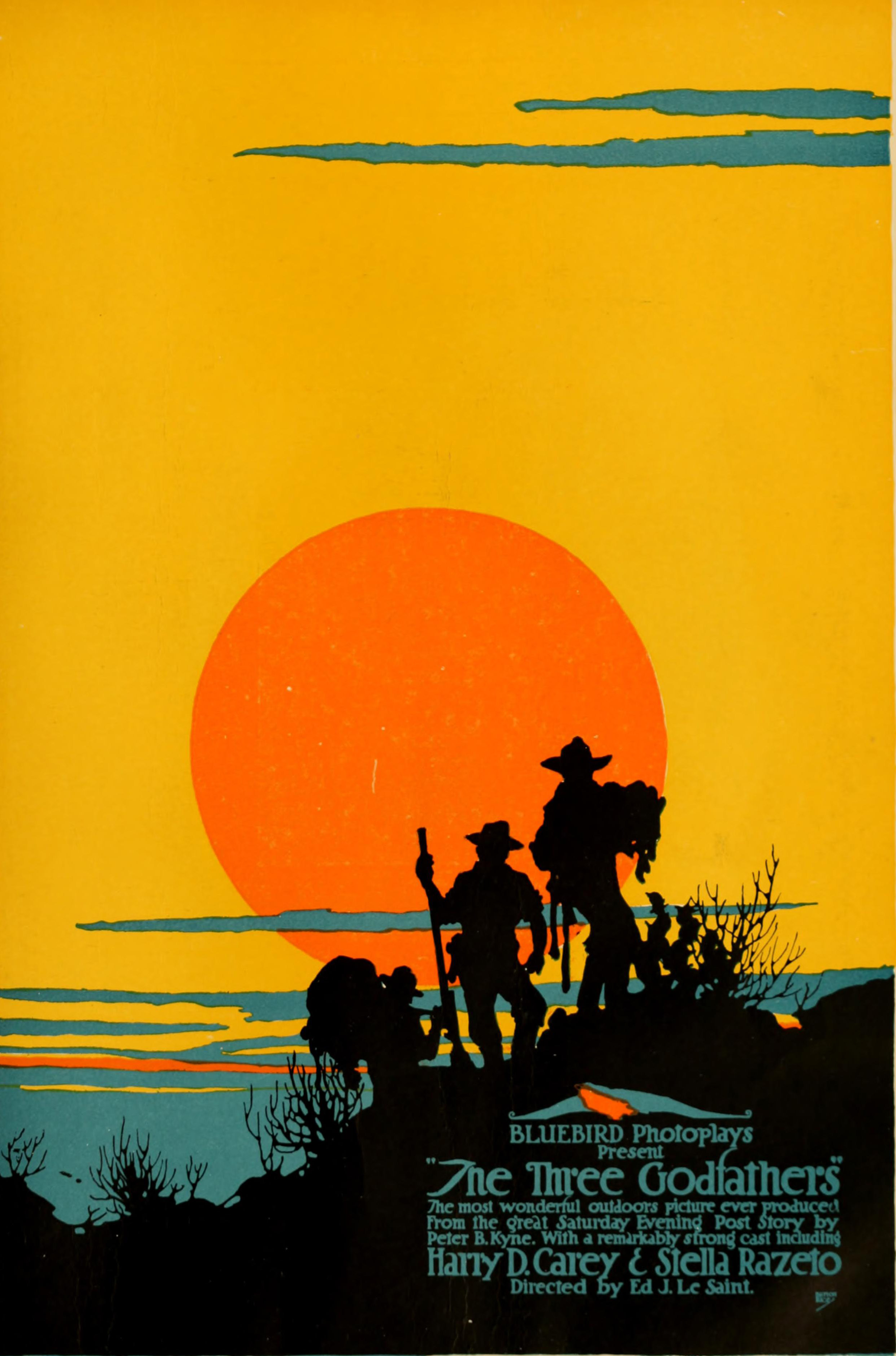 Advertisement in The Moving Picture World for The Three Godfathers (1916).